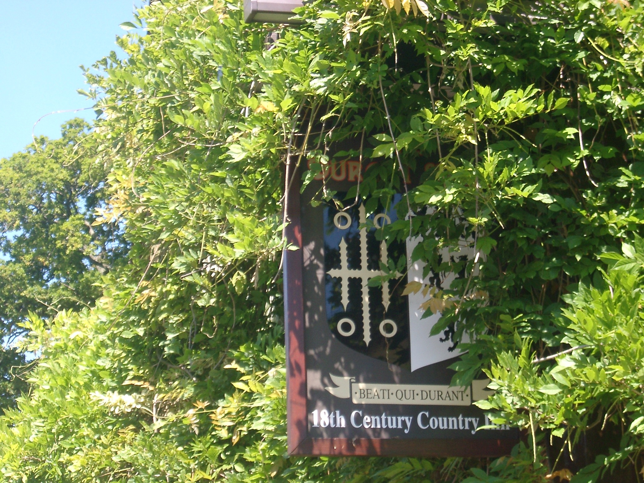 Pub sign of "Durant Arms" in Ashprington, Devon, England with Latin inscription BEATI QUI DURANT ("Blessed those who can endure")